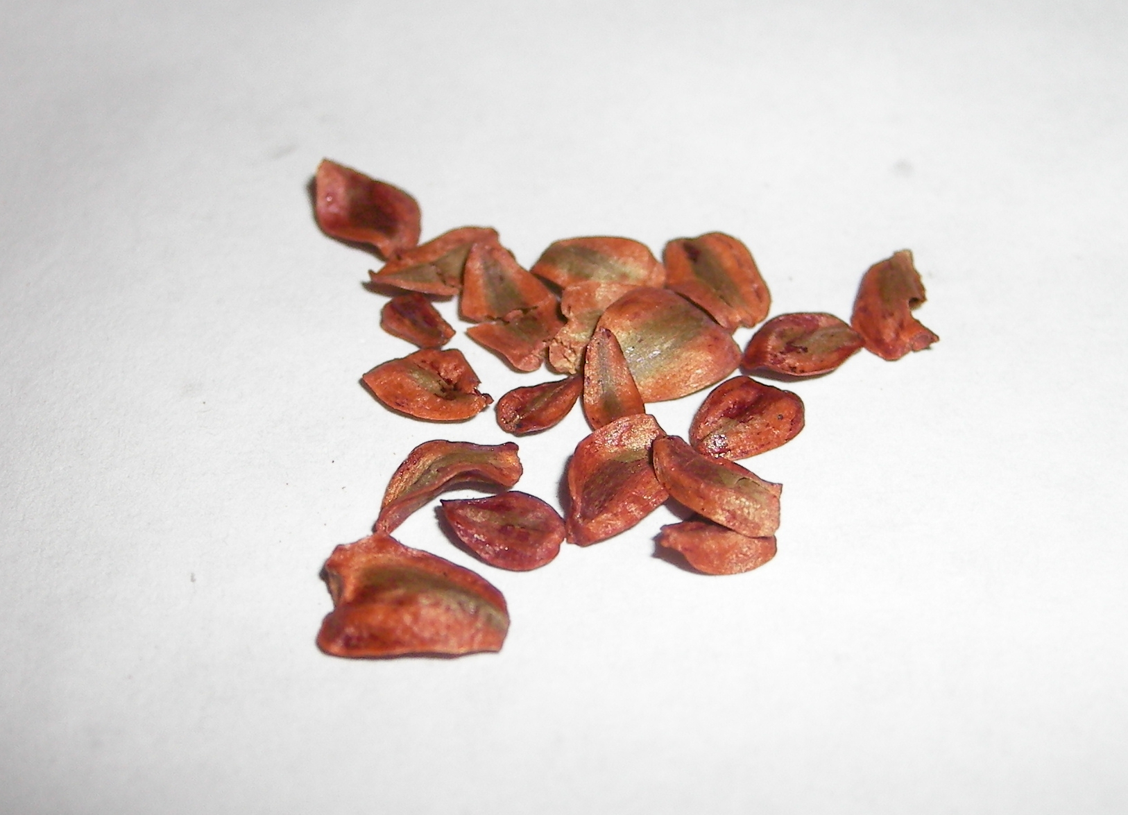 Sequoia sempervirens